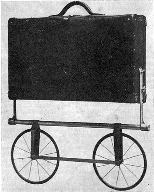 Dawn-Mobile, The Watch Tower, 15 June 1908